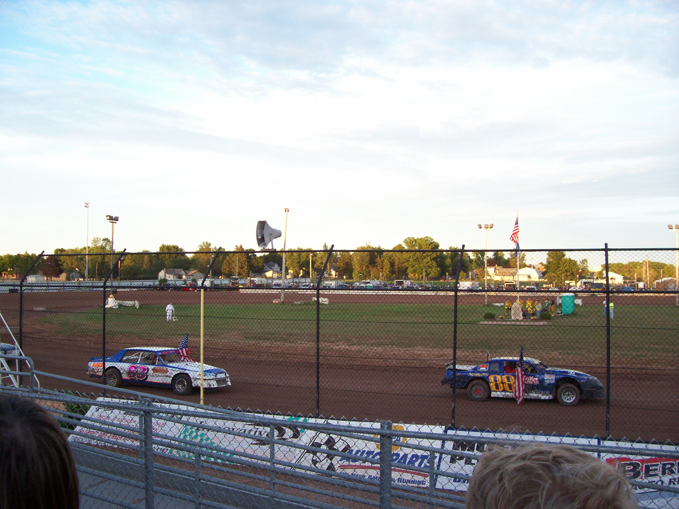 Picture of stockcars (left:street stock and right:Grand National [sportsman]) at the Calumet County, Wisconsin fairgrounds in Chilton, Wisconsin, USA, taken September 1, 2006 by User:Royalbroil